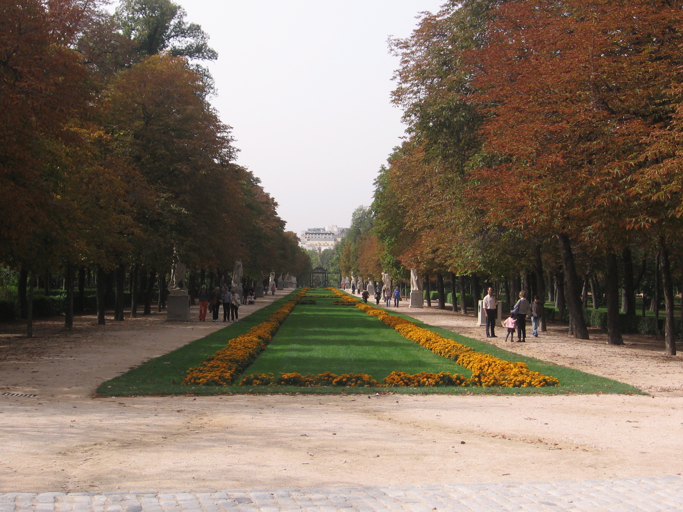 The Paseo de la Argentina is a sculpture walk and open air museum along a landscape avenue (allée) in Retiro Park (Jardines del Buen Retiro) in central Madrid, Spain.